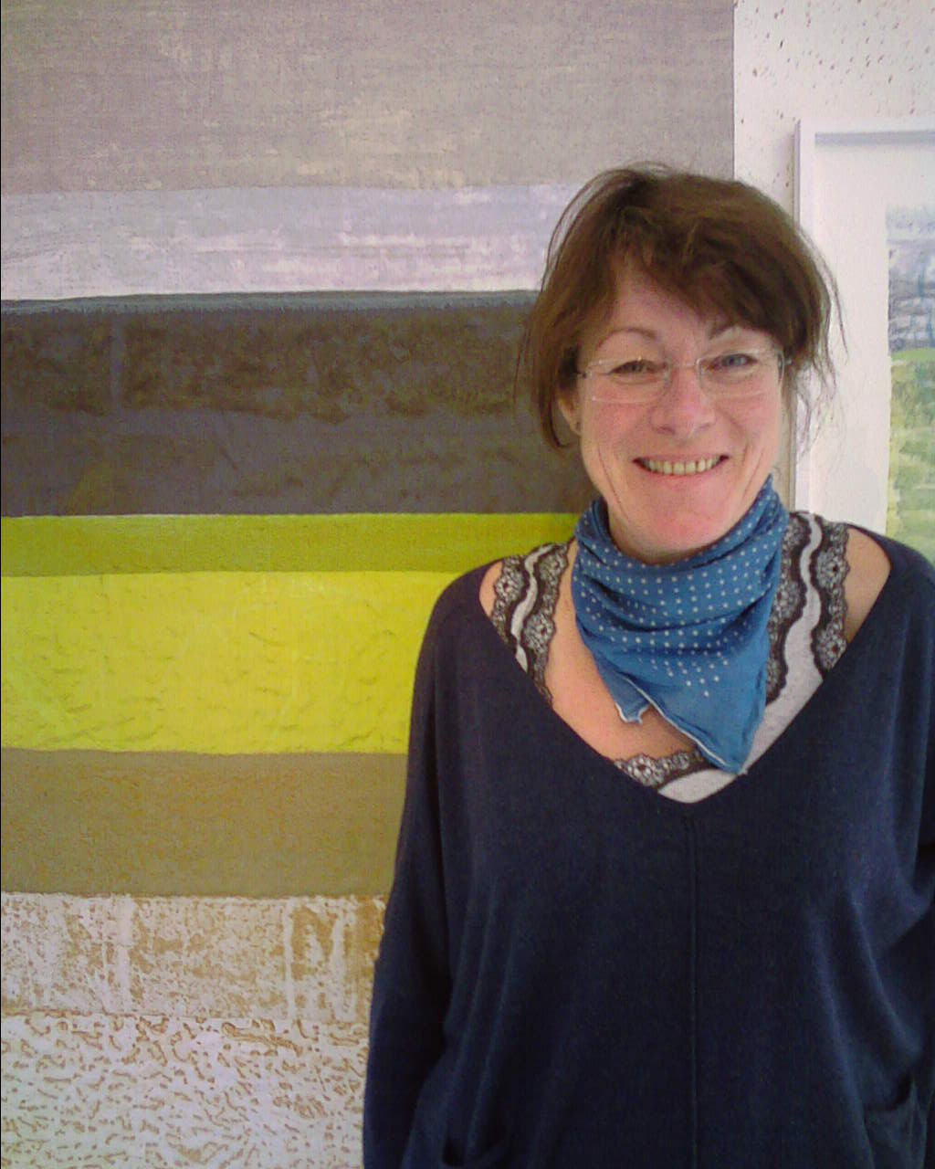 Jo at her studio after a party the night before. Excellent host and chat. ... and the textiles are brilliant. See here when studio open or she also has a few bits in the V&A